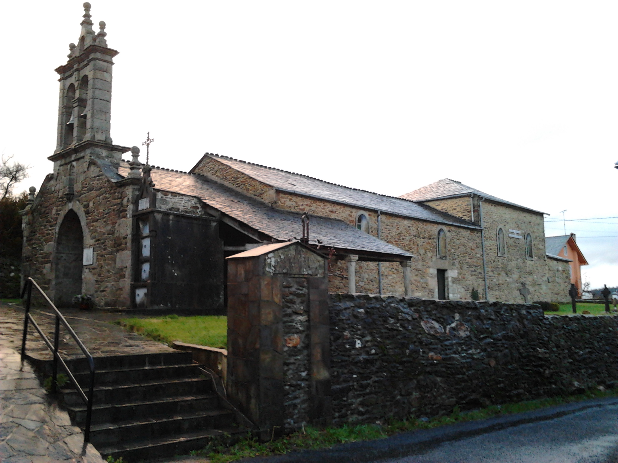 Vista xeral da igrexa de Santa María de Xestoso, concello de Monfero.